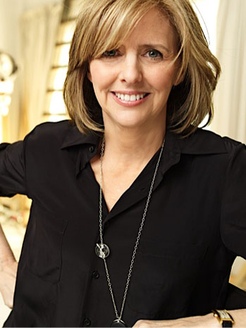 Headshot of film director, producer and screenwriter Nancy Meyers.